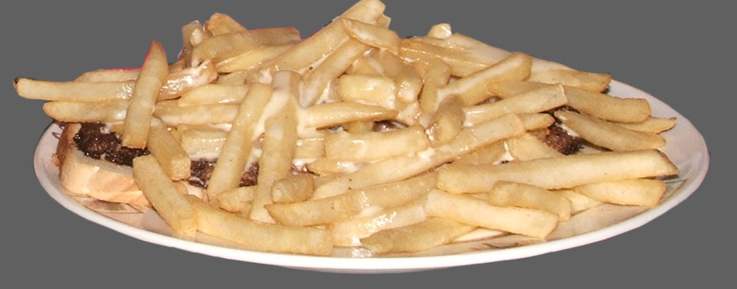 A hamburger horseshoe from Gabitoni's Restaurant in Springfield, IL.